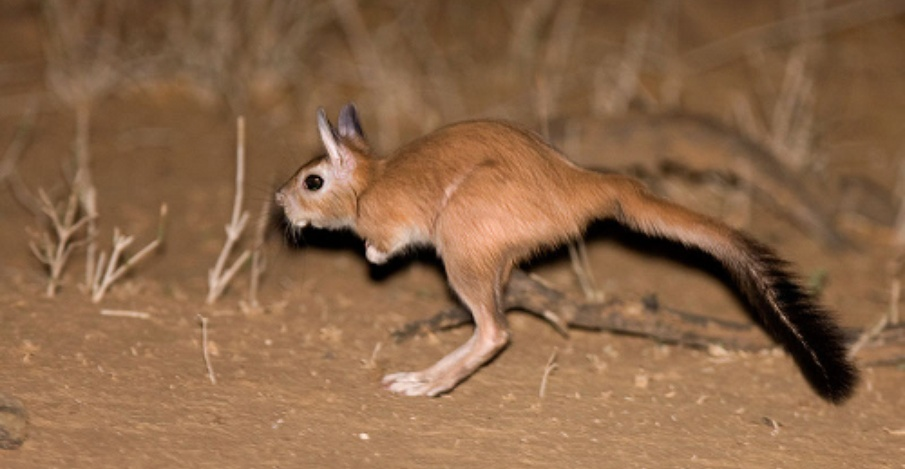 Pedetes capensis (South African Springhare)